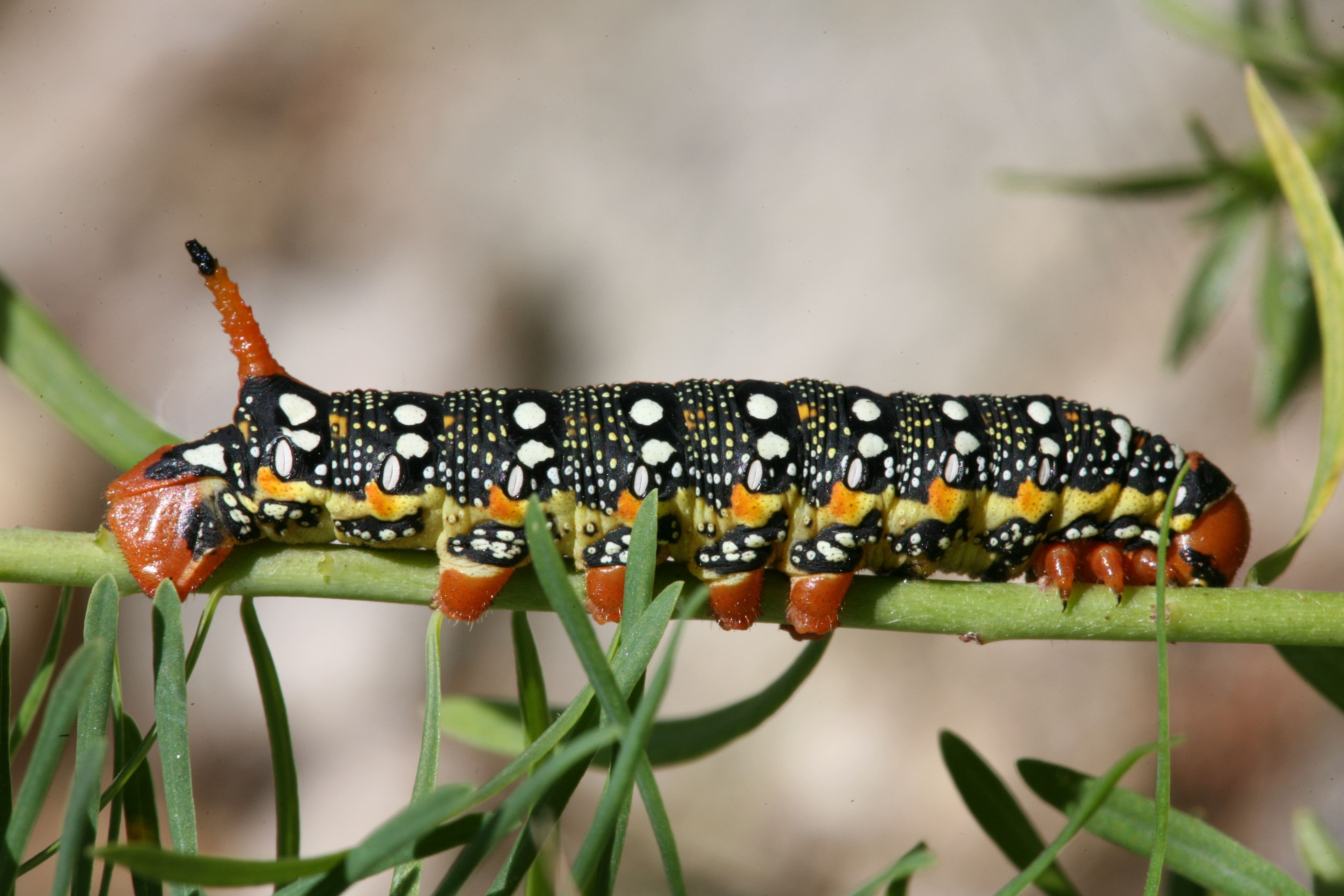 Caterpillar of the Spurge Hawk-moth, seen in Kriegtal near Binn, Valais, Switzerland at approx. 2000 m altitude